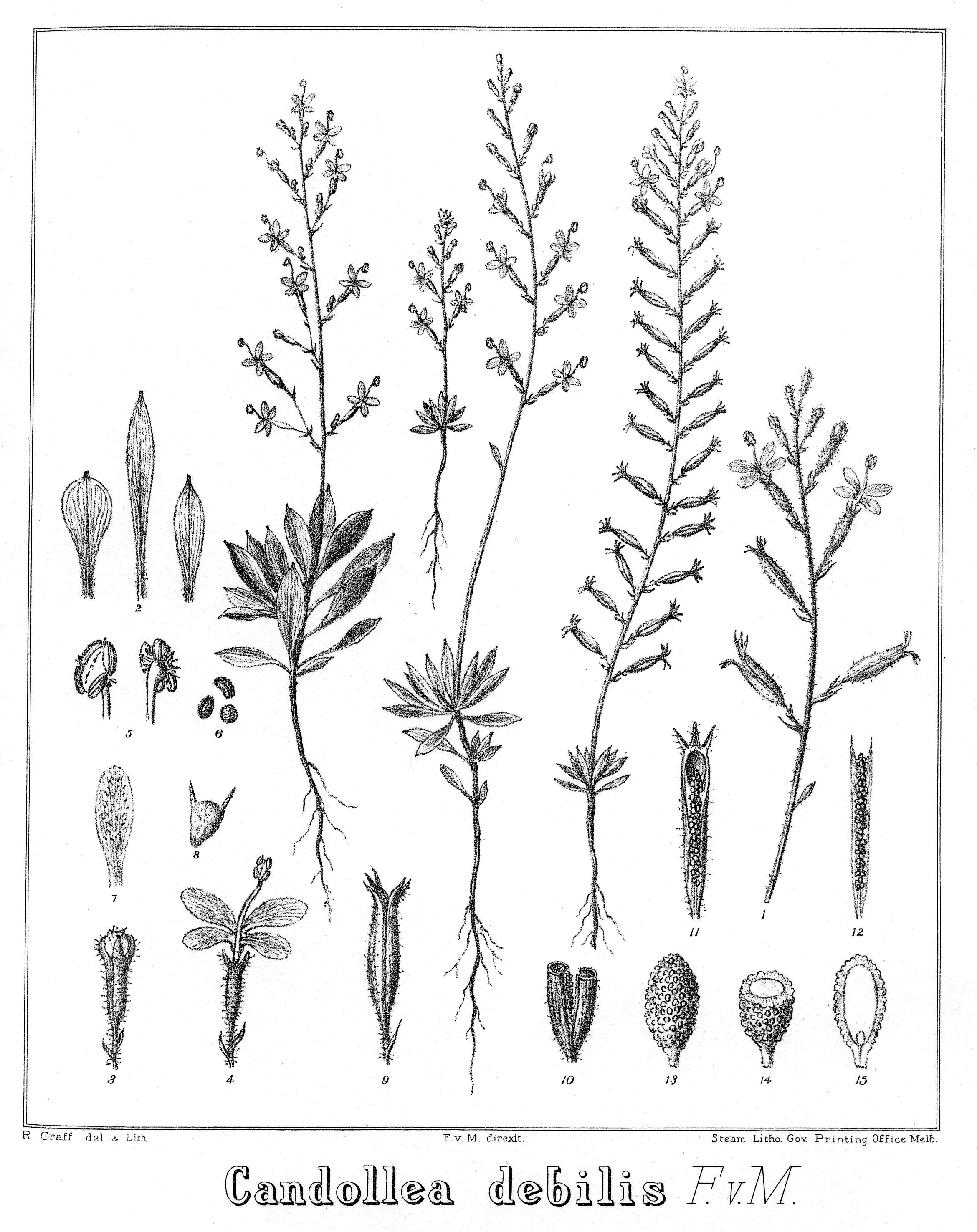 Illustration of Candollea debilis (now Stylidium debile).